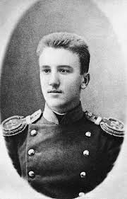 Russian writer Alexander Kuprin in the early 1890s